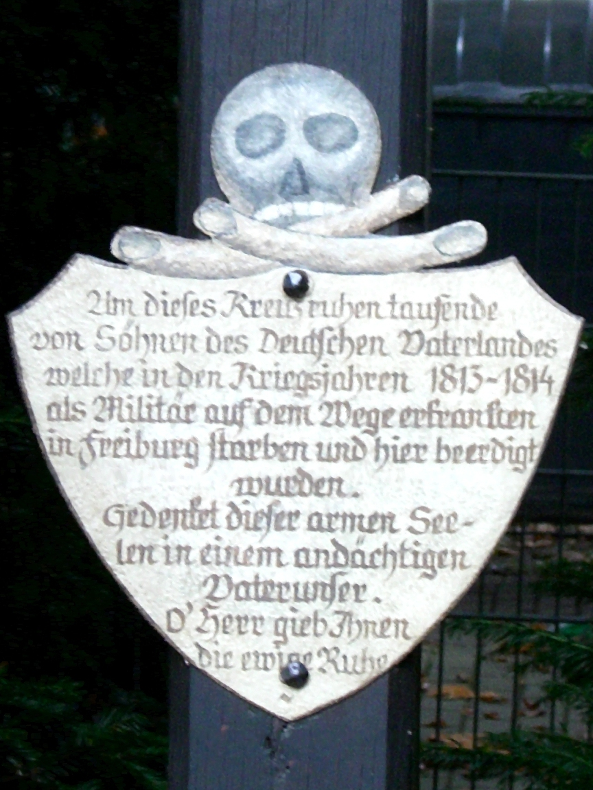 Five wound cross Freiburg Stühlinger